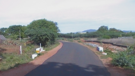 one of the way to Elangakurichy